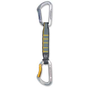 A quickdraw.